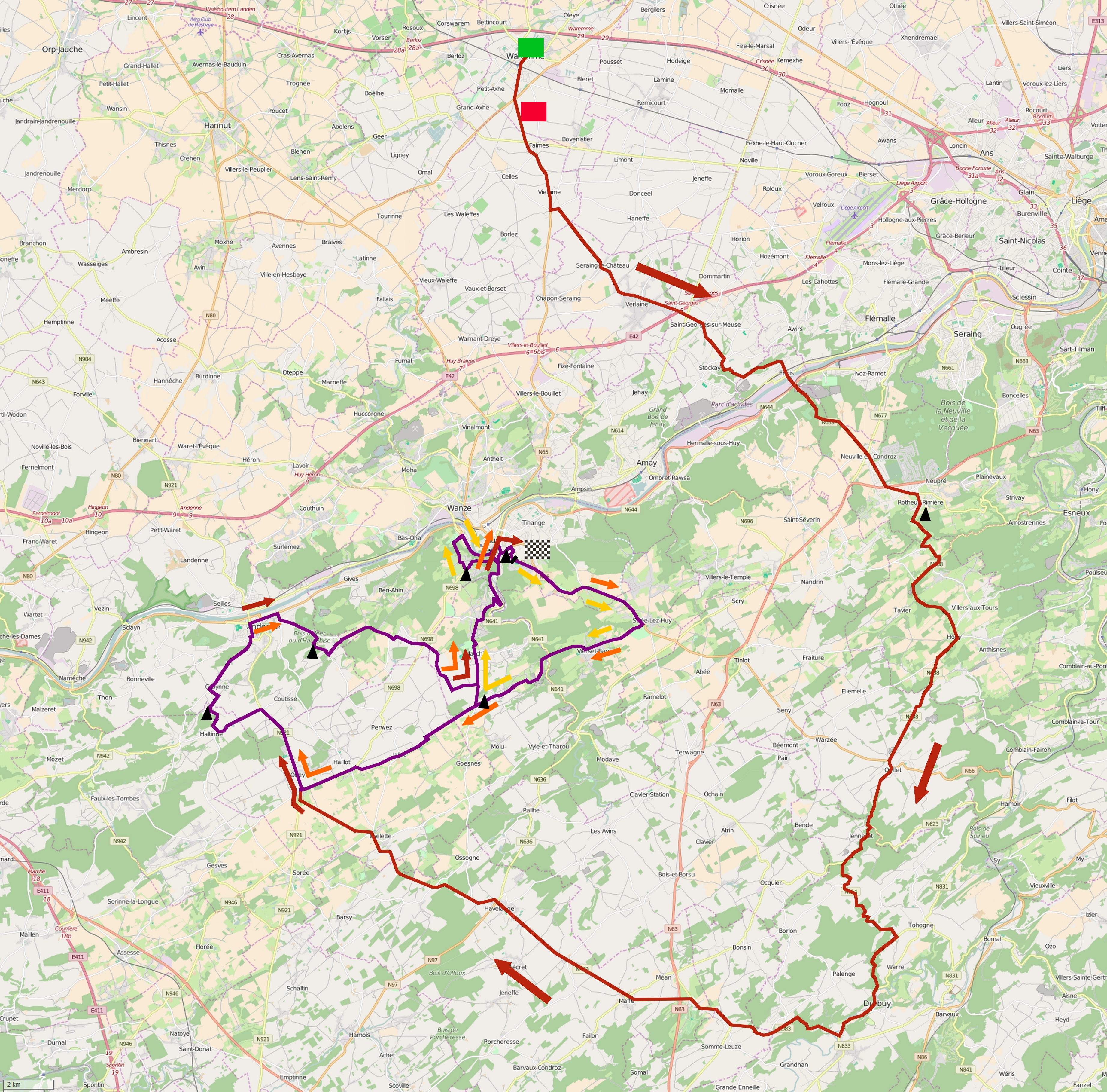 Parcours de la Flèche wallonne 2015. This map may be incomplete, and may contain errors. Don't rely solely on it for navigation.